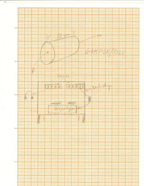 Gompen, drawing by RonaldBye 2014